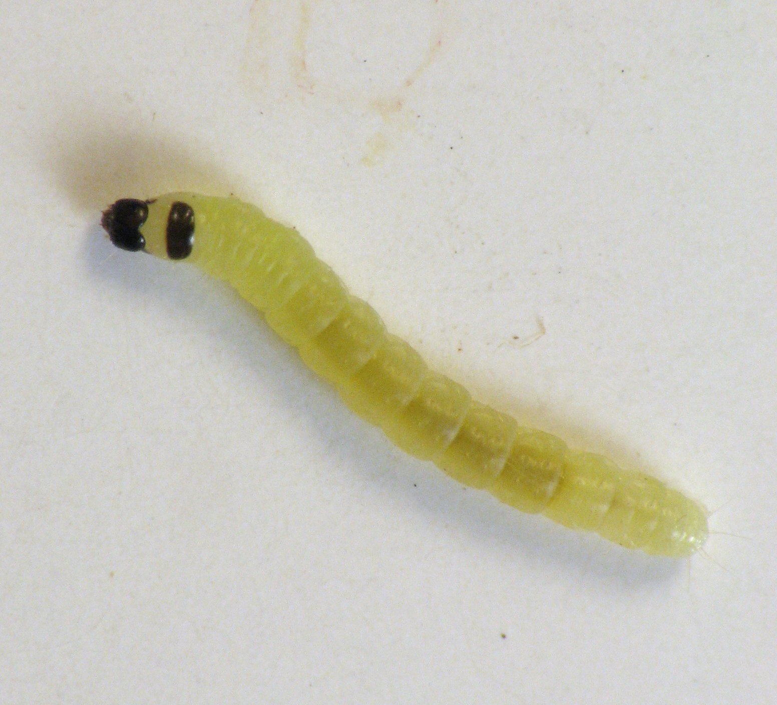 Depressariid moth caterpillar, Agonopterix senicionella (Hodges#0881), inside rolled leaf of Senecio aureus. Size: 6-7 mm. Opossum Creek Retreat, Fayette County, West Virginia, USA.